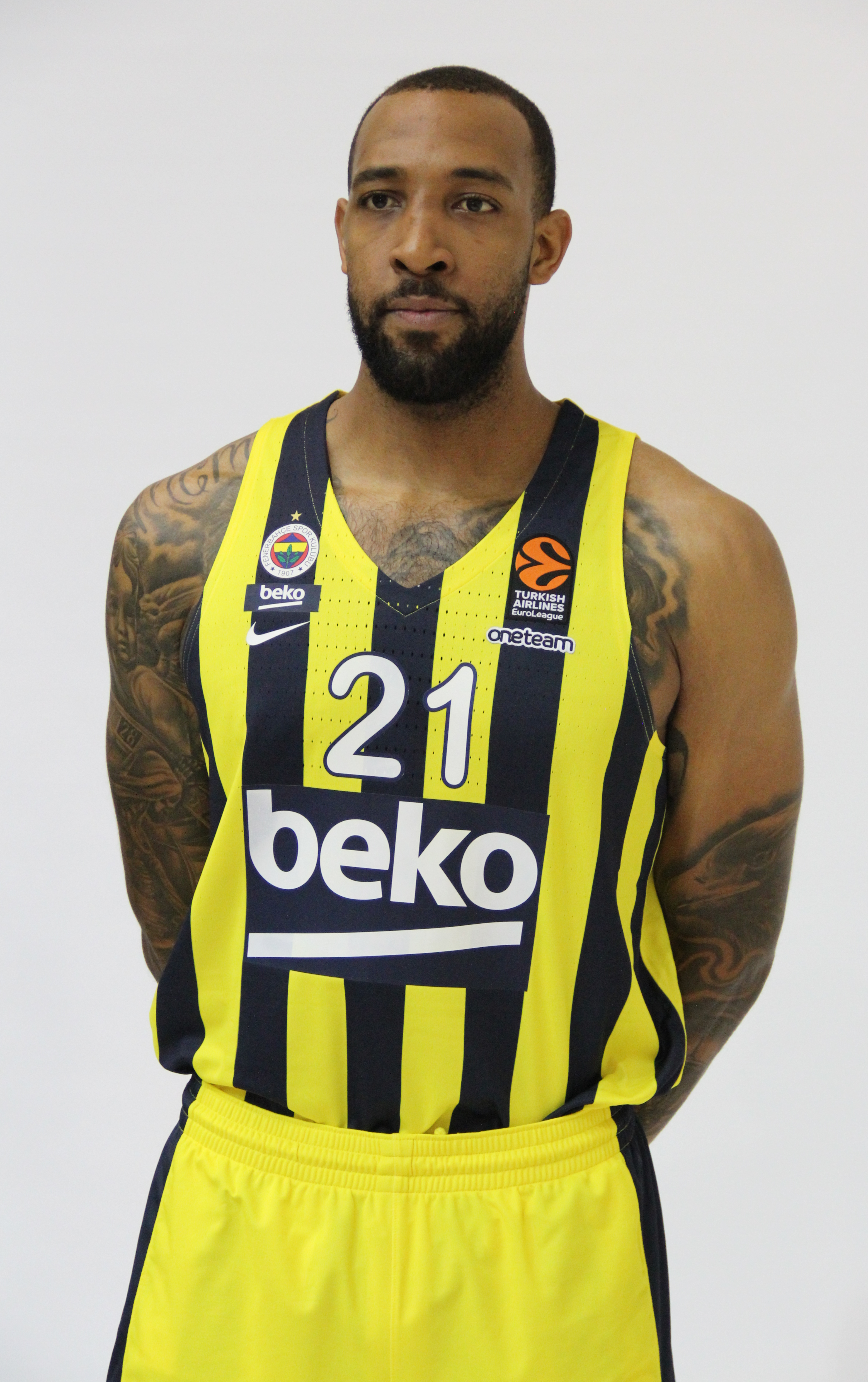 Derrick Williams (basketball) 21 Fenerbahçe Basketball 20190923